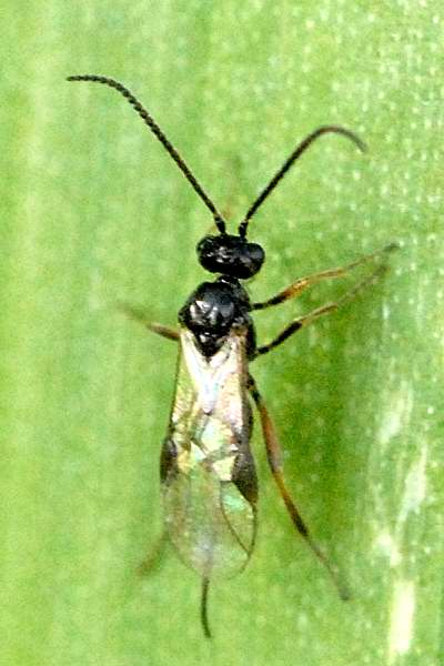 Eubazus sigalphoides from Commanster, Belgian High Ardennes .